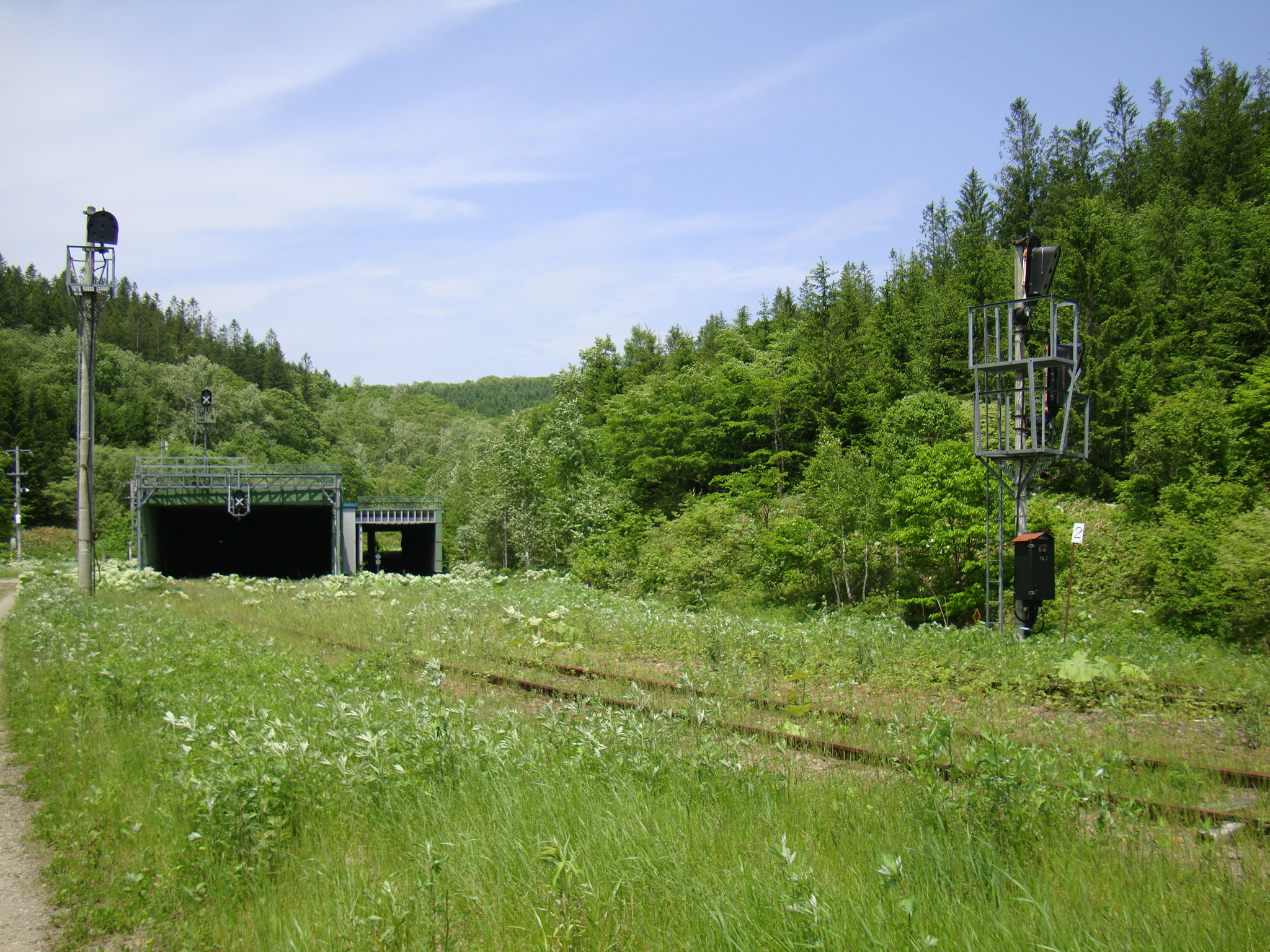 Jōmon Signal Base